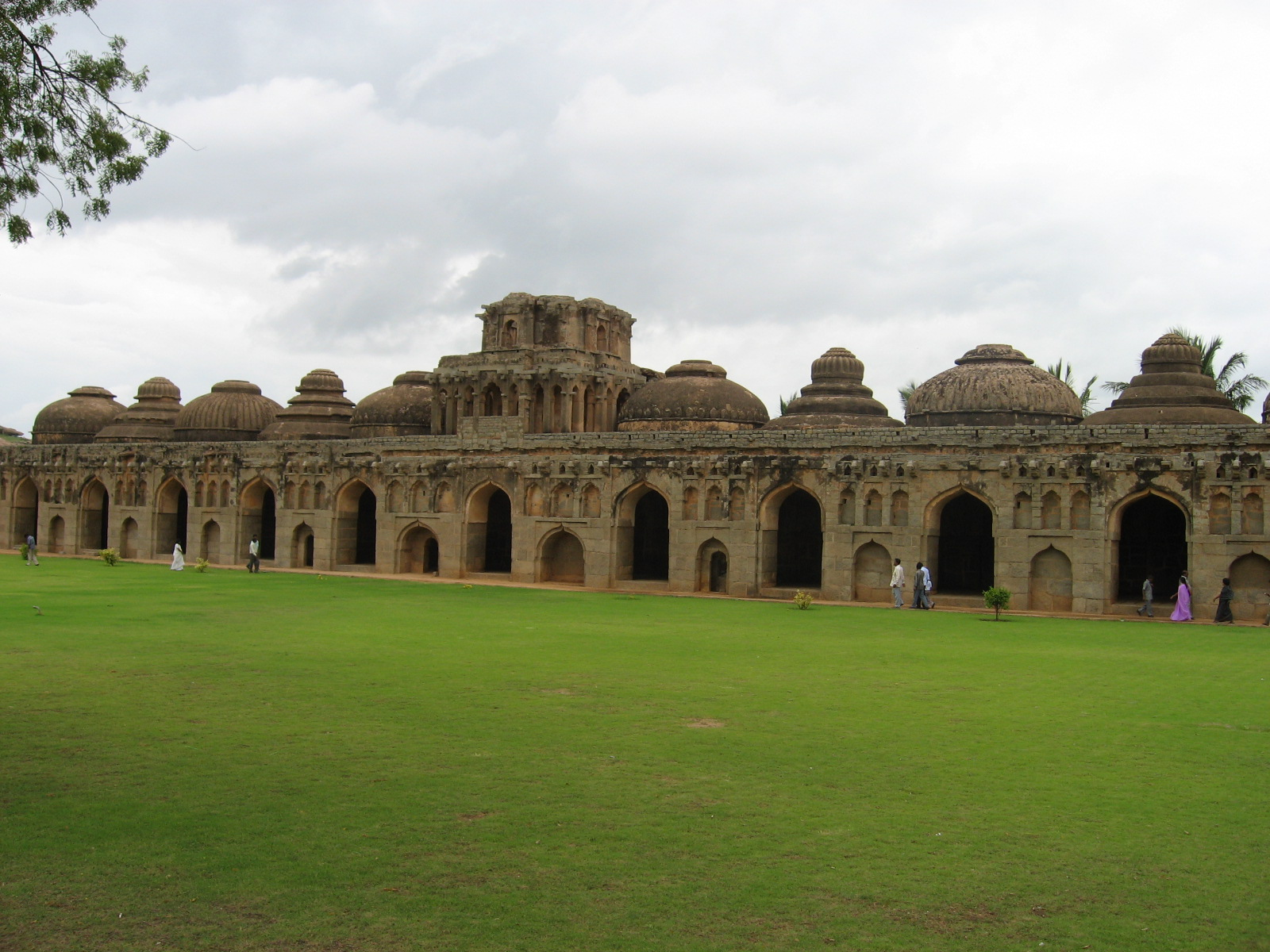 i) Elephant's Stable ii)Guards House close to Elephant's Stable